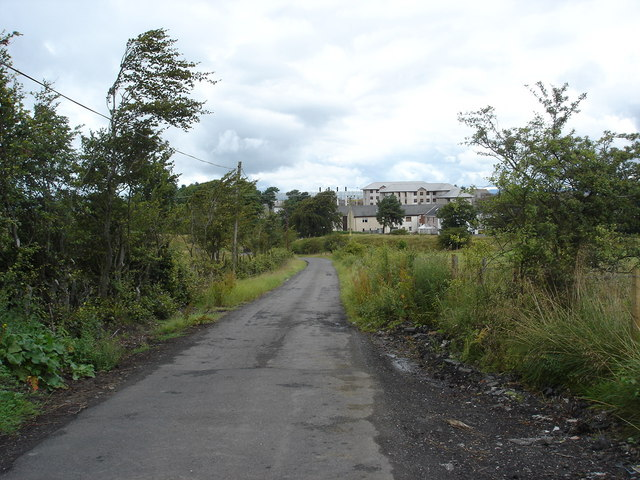 Looking towards Longriggend Prison. View south along minor road to hamlet called Upperton where a prison which I think is now disused is located. It is miles from anywhere so would not be a convenient location for visitors. Perhaps that was the reason it was located here?